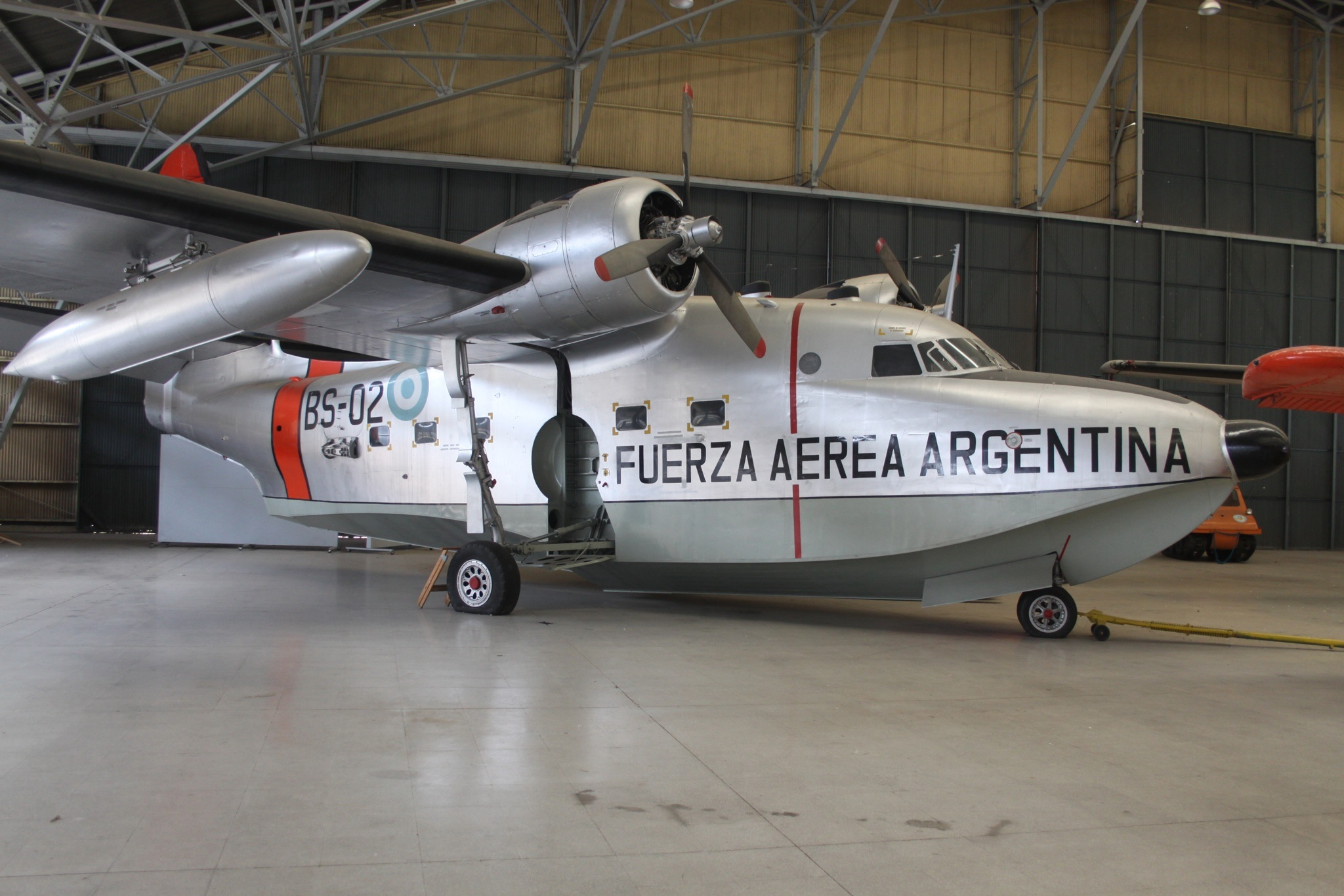 At Moron Museo Nactional De Aeronautica